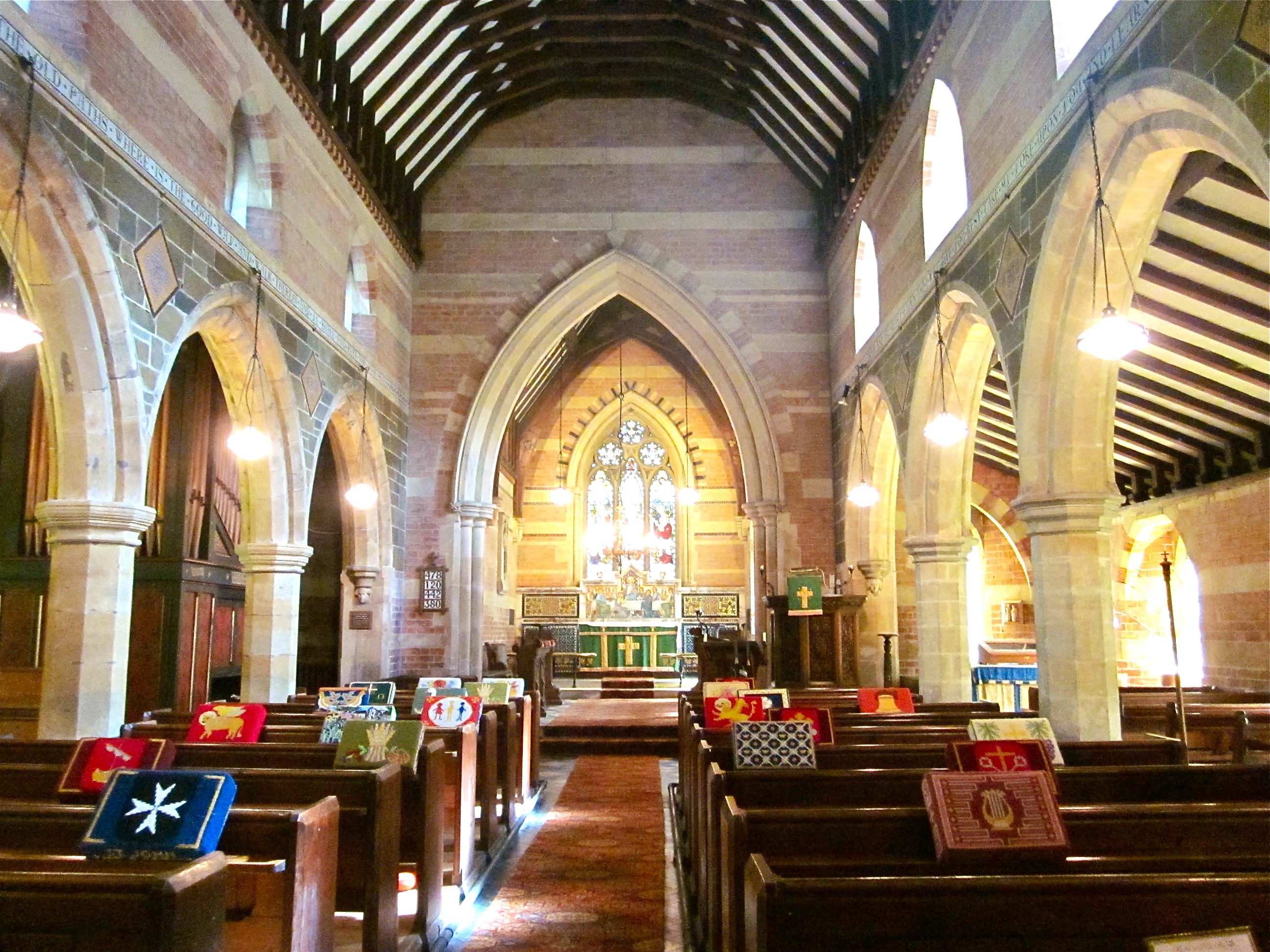 Inerior of St.John the Baptist's church, Great Carlton, Lincs. Nave and chancel rebuilt by James Fowler in 1860-1